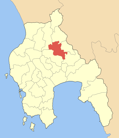 Locator map of Meligala municipality (Δήμος Μελιγαλά) at Messinia perfecture, Greece.